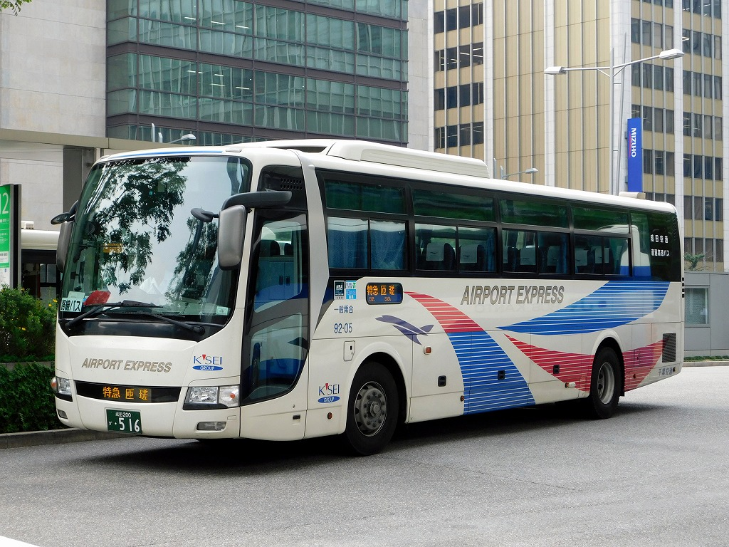 Chiba kotsu Mitsubishi Fuso Aero Ace (LKG-MS96VP)